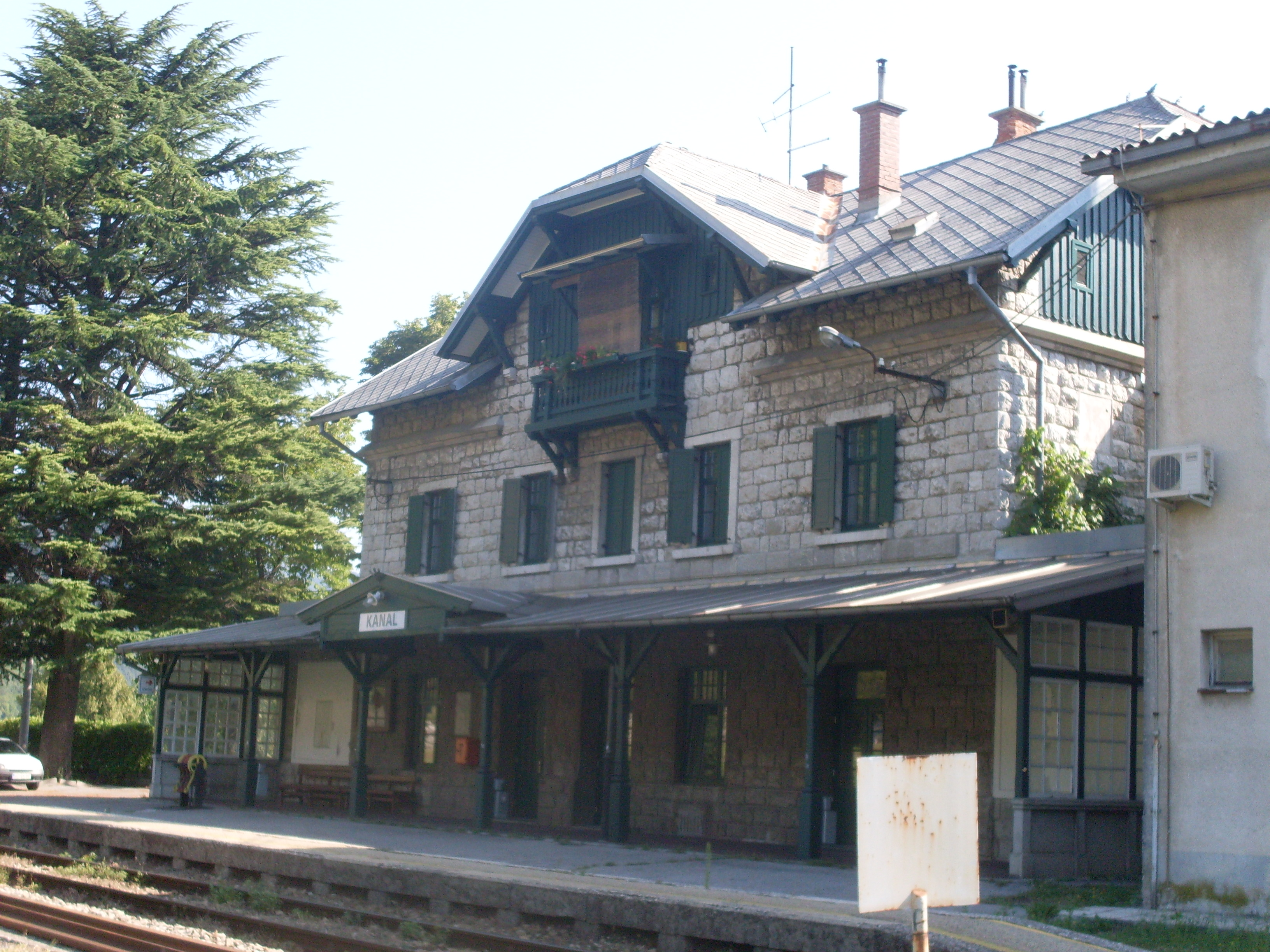 Railway halt Kanal in Kanal ob Soči